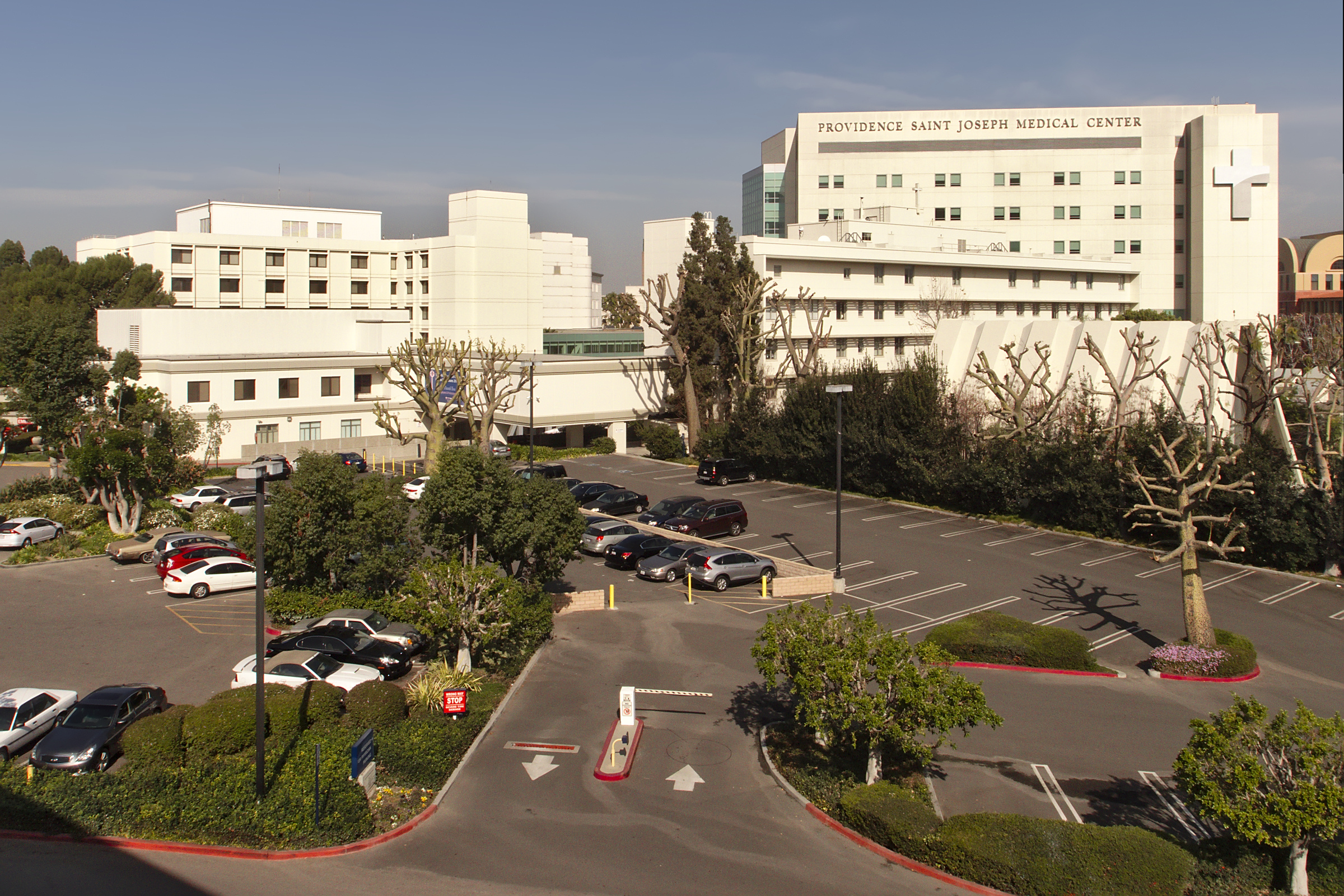 Providence Saint Joseph Medical Center in Burbank, California.